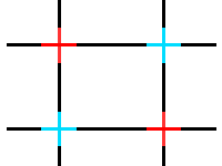 figure describe "Neon Color Spreading".Illustrabted by Henohenomoheji.